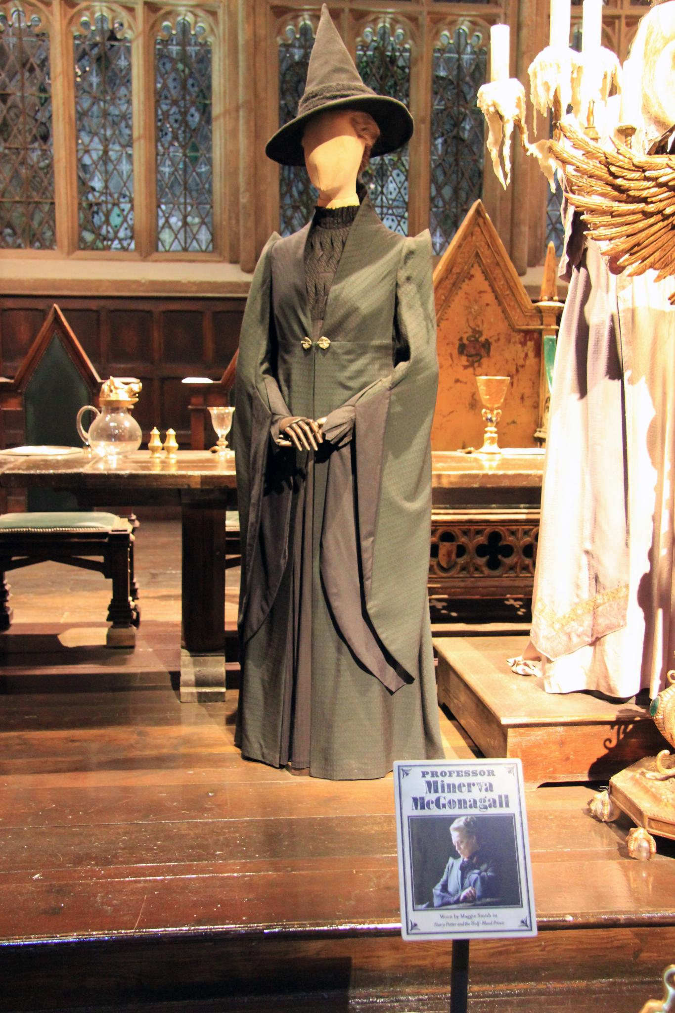 Warner Bros. Studio Tour London: The Making of Harry Potter.